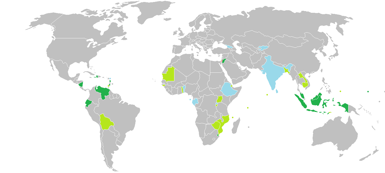 Visa requirements for Palestinian citizens until 31 May 2016